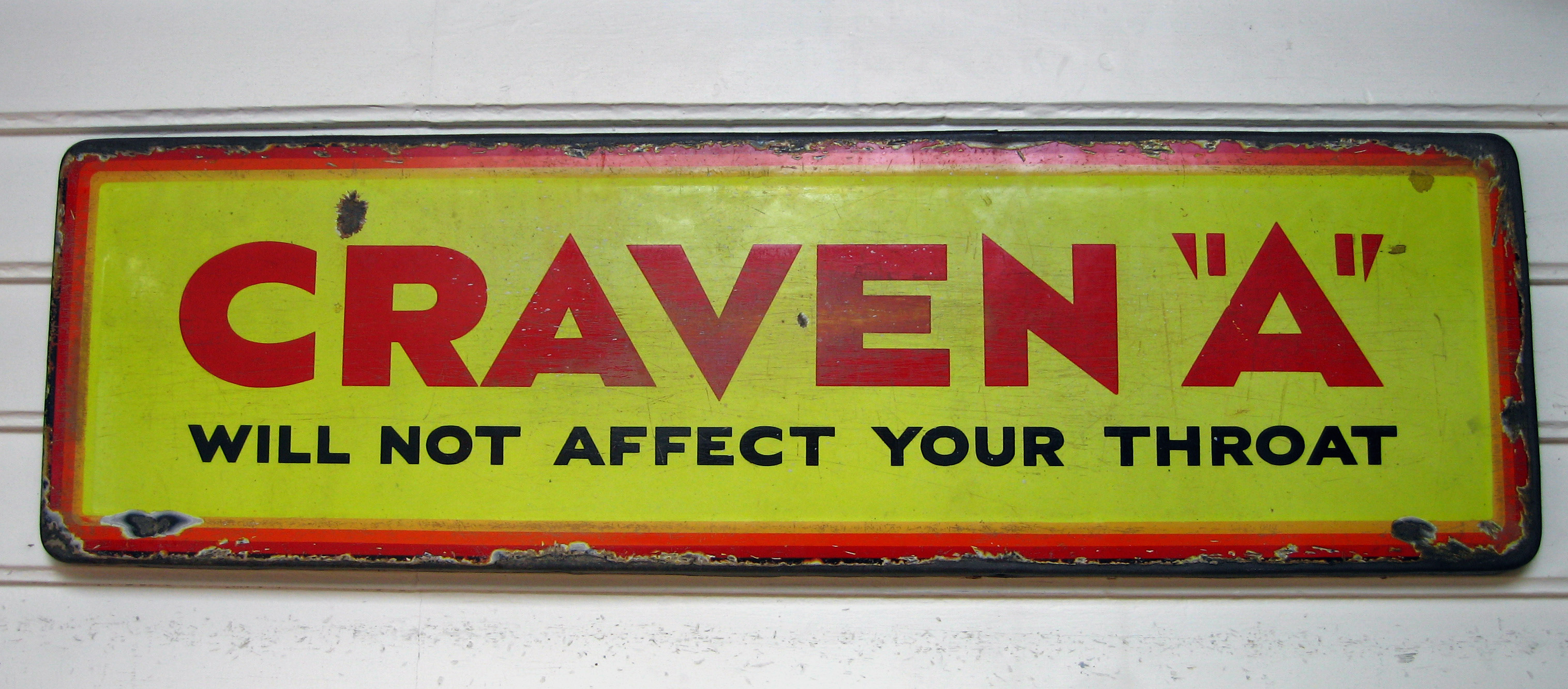 Vintage Craven A sign, Nelson, New Zealand.